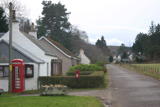 Kellas. Looking SW from position